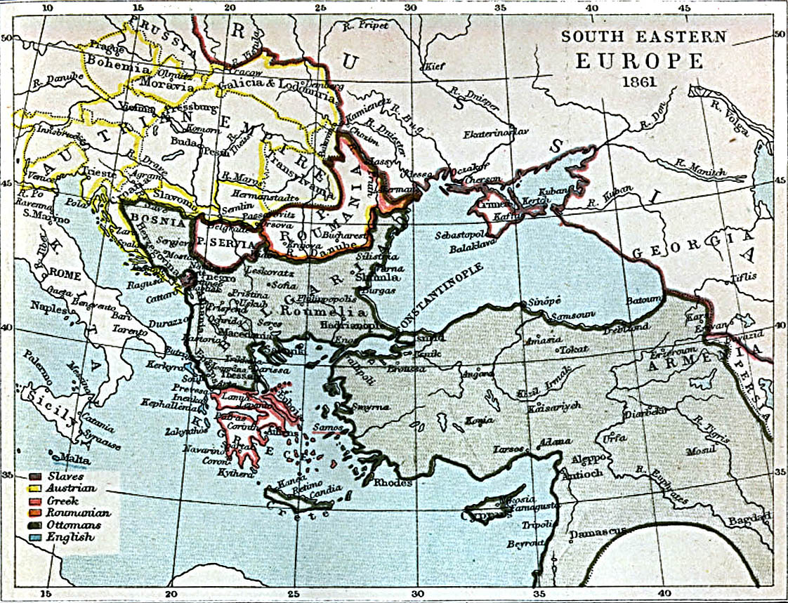 Map of south-eastern Europe in 1861 AD.